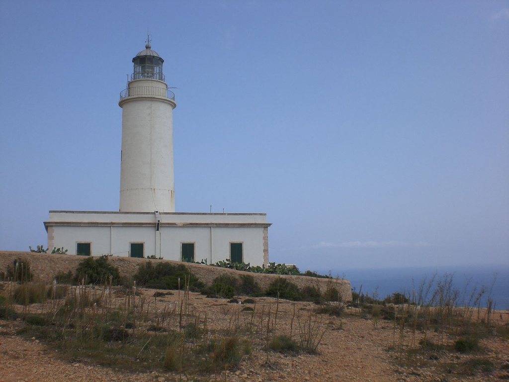 Lighthouse of La Mola, Formentera, Balearic Islands.